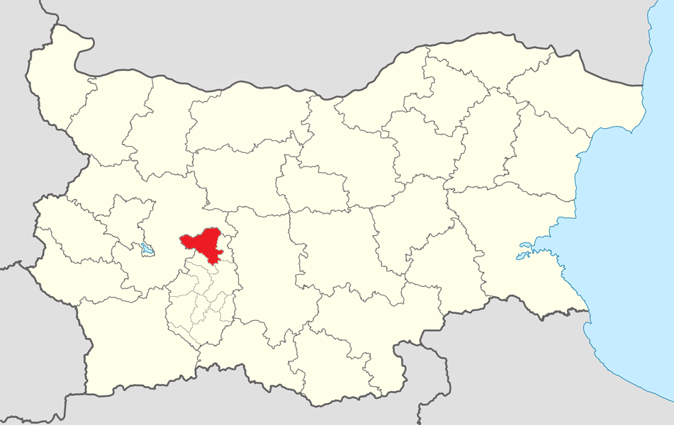 Location map of Panagyurishte Municipality within Bulgaria and Pazardzik province